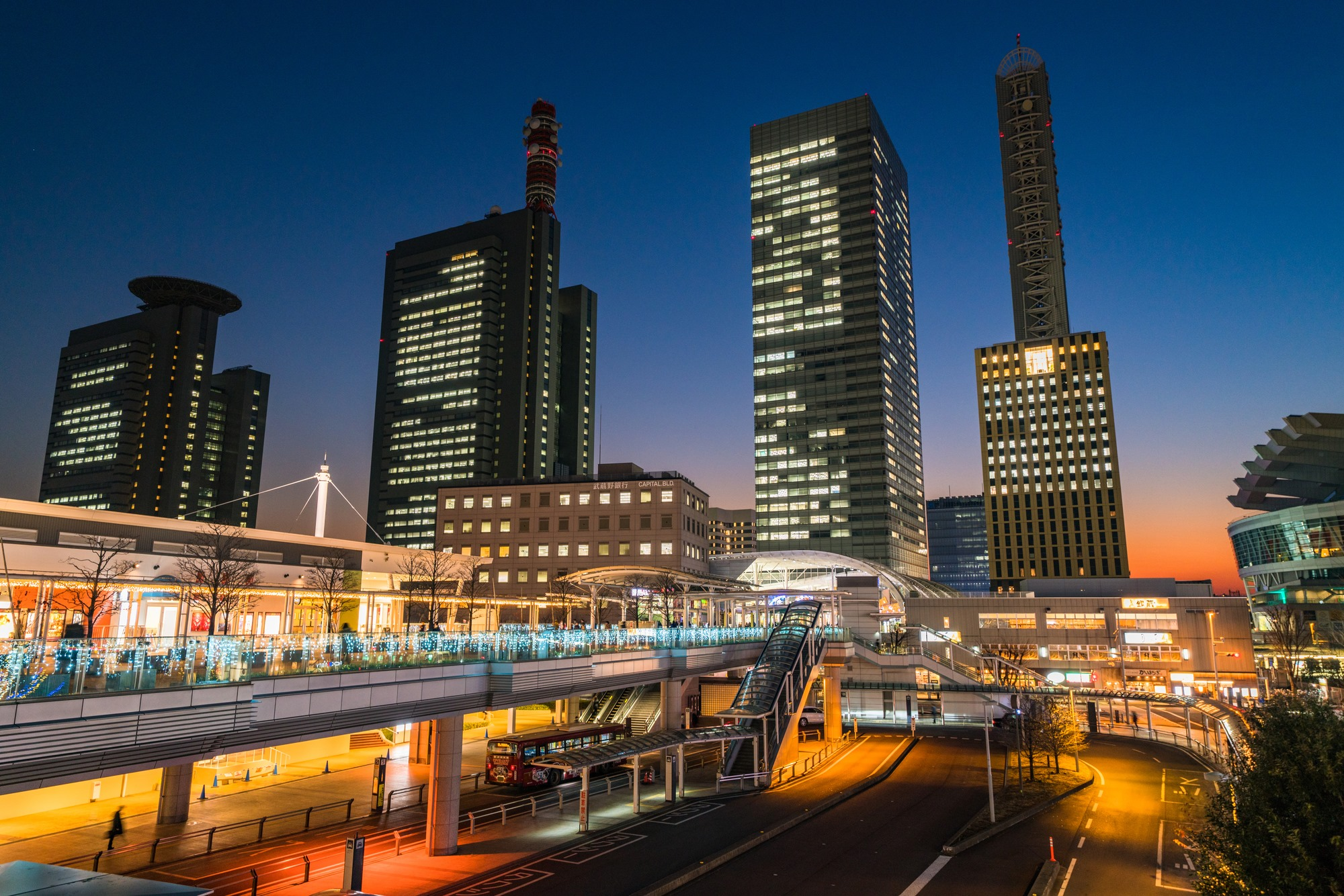 SaitamaShintoshin night view